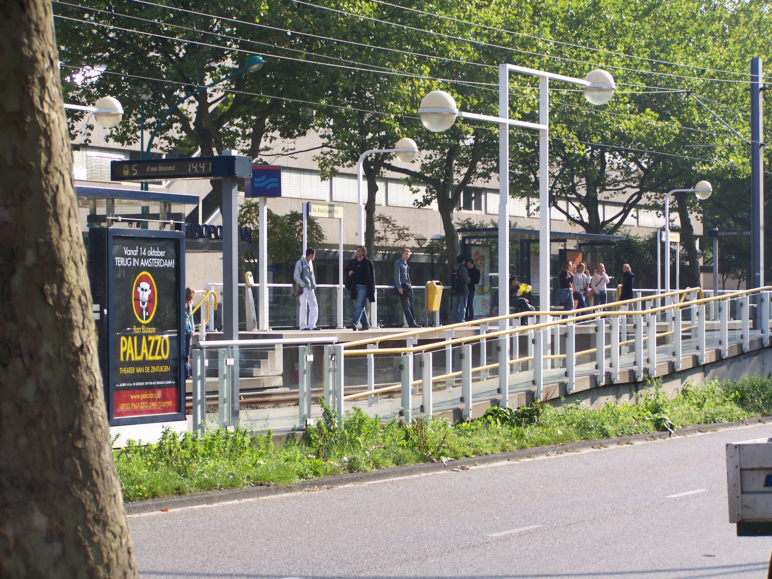 The Amsterdam metro Sneltramhalte De Boelelaan / VU in the Netherlands.